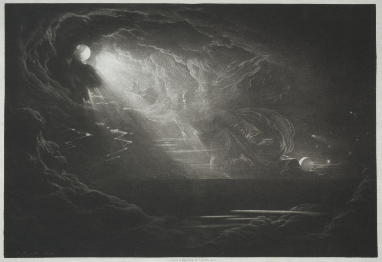 The Creation of Light by John Martin, part of the illustrations for Paradise Lost by John Milton